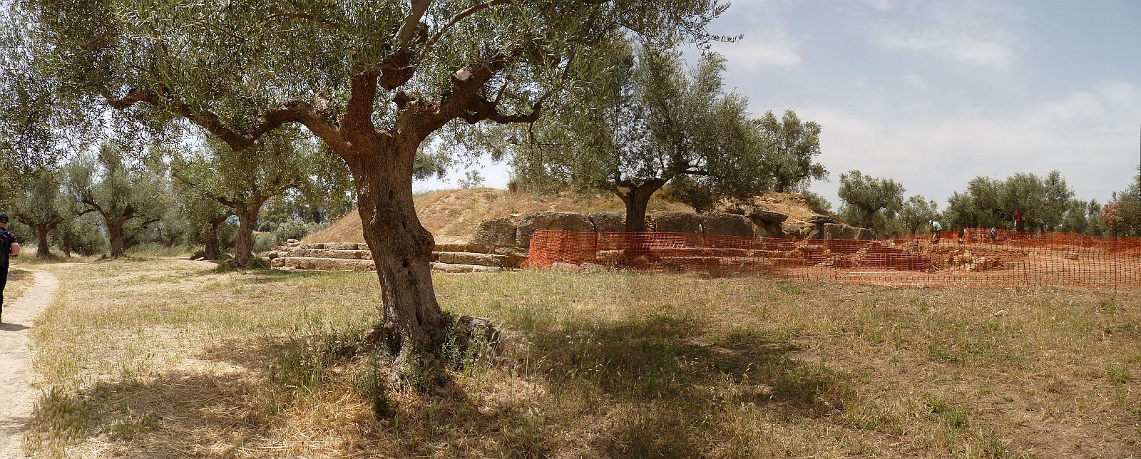 Sparta (Doric Greek: Σπάρτα, Spártā; Attic Greek: Σπάρτη, Spártē), or Lacedaemon, was a prominent city-state in ancient Greece, situated on the banks of the Eurotas River in Laconia, in south-eastern Peloponnese. You can use the images for free. But a link to - I would be happy :)